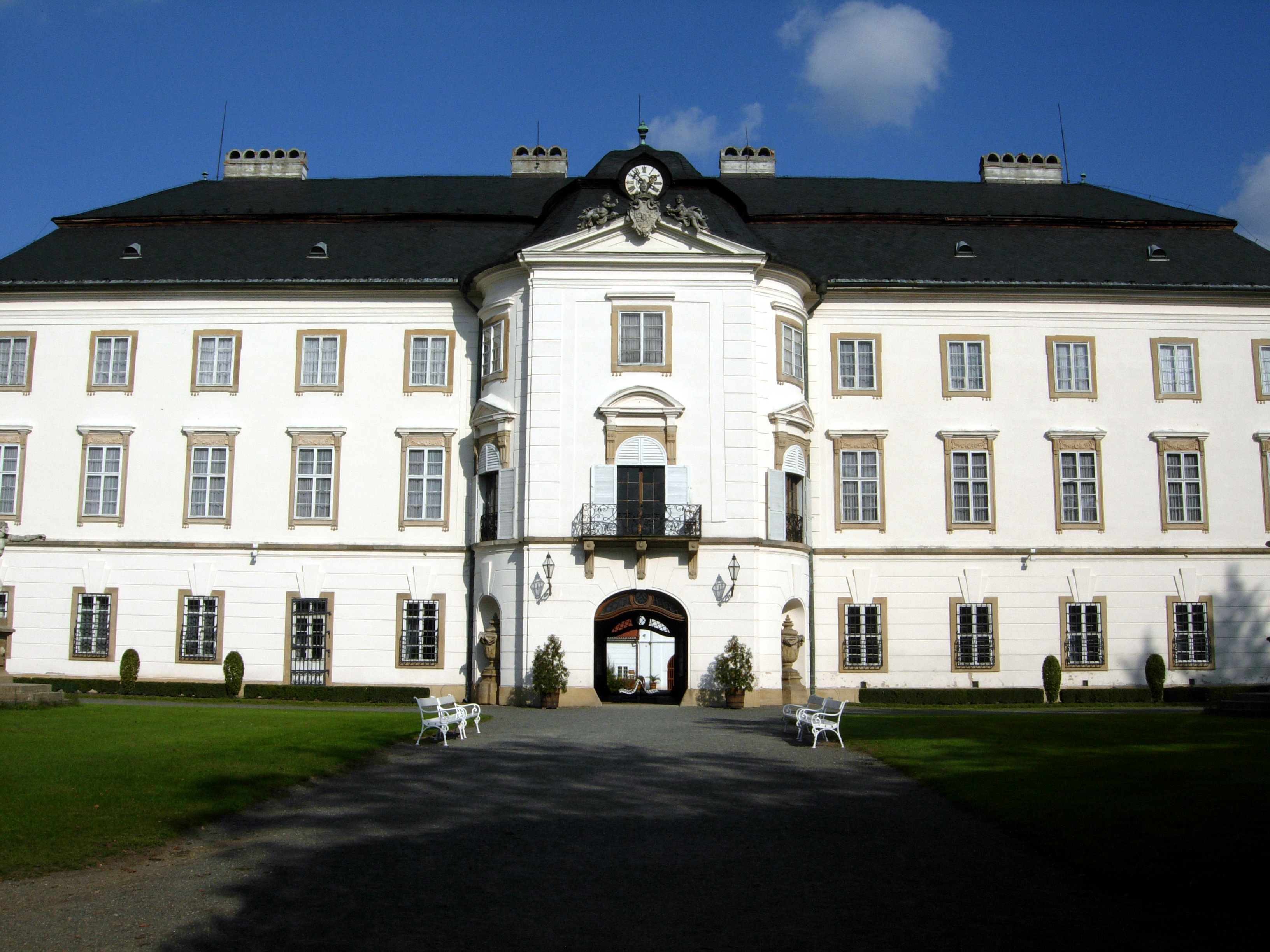 Vizovice in Zlín District, Czech Republic. Castle, the rear facade.